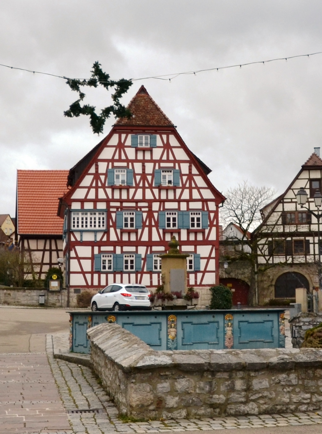 Vellberg, Im Städtle 11, erbaut um 1634 (Bezeichnung IKL über dem Eingang), Wohnhaus zum Bauernhof Blind, später Fiebich.